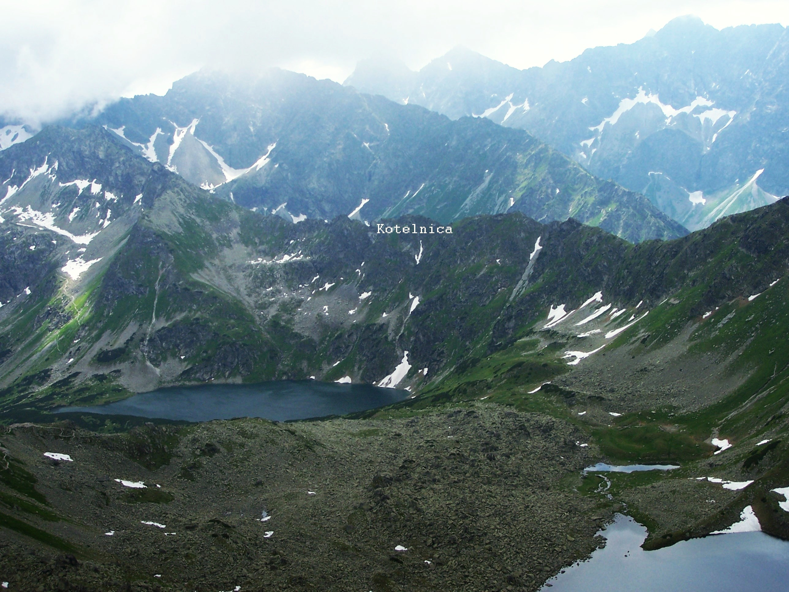 Kotelnica (High Tatra Mountains)